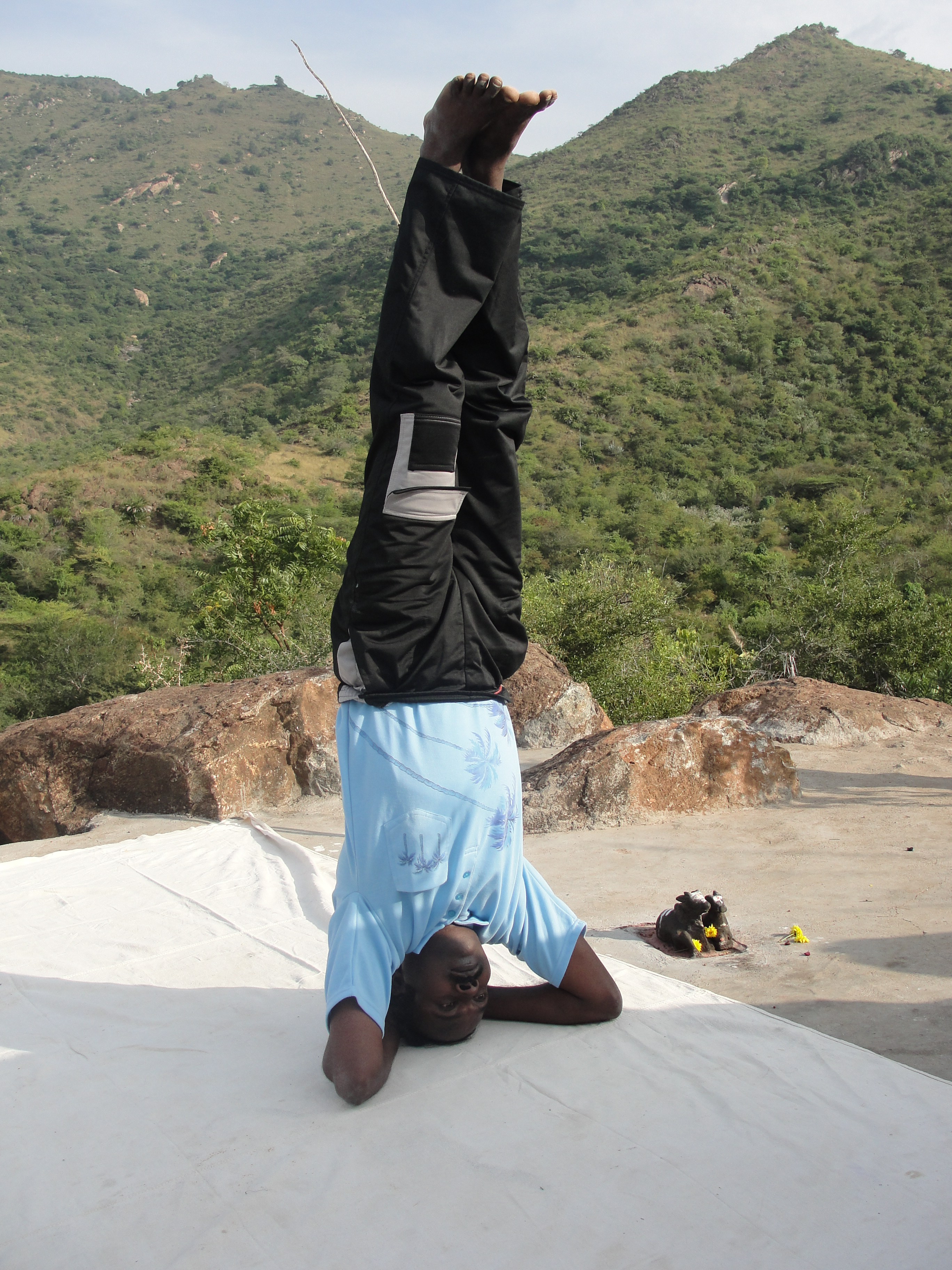 A style of Sirsasana